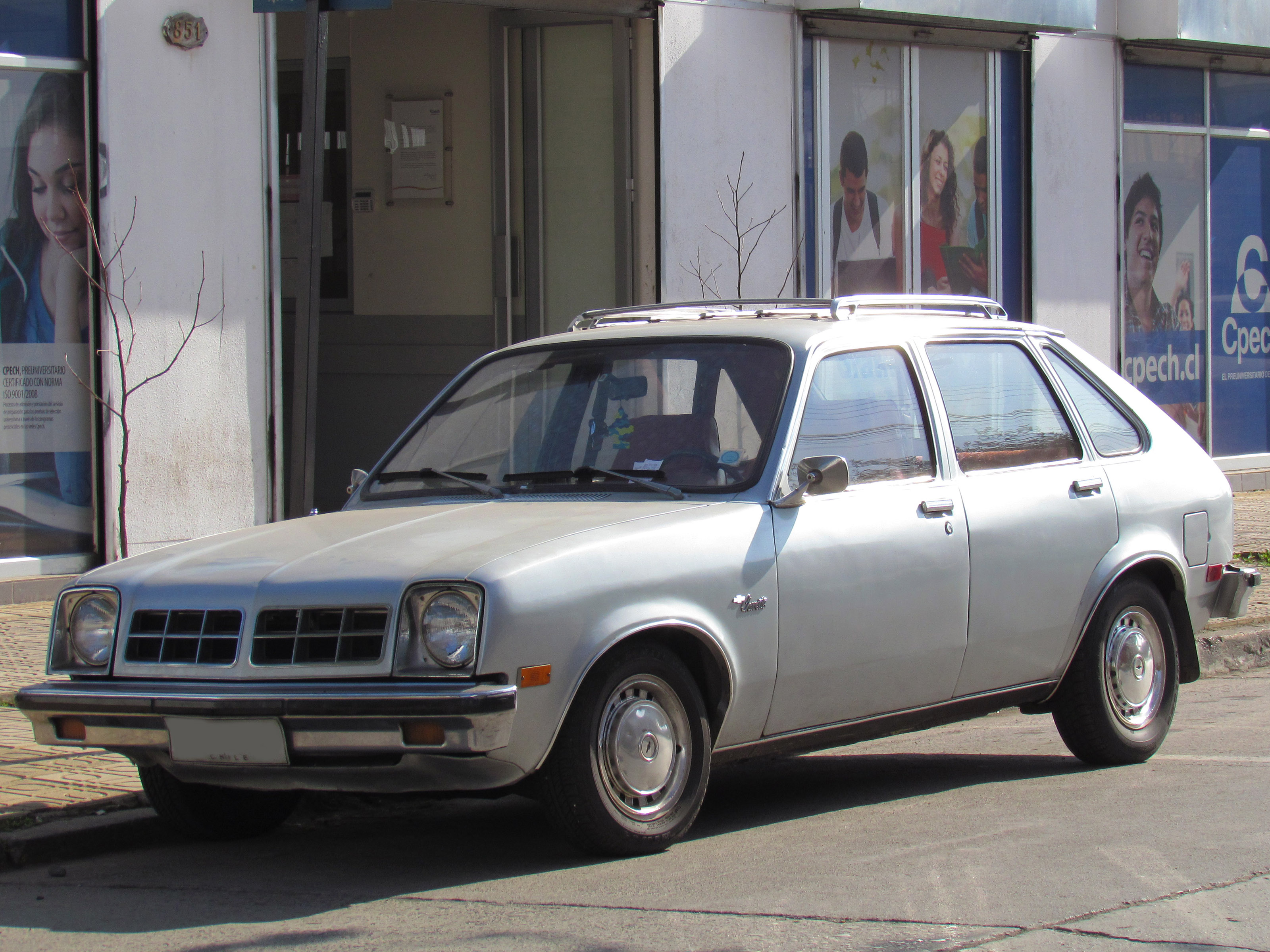 Chevrolet Chevette 1600 Hatchback 1978